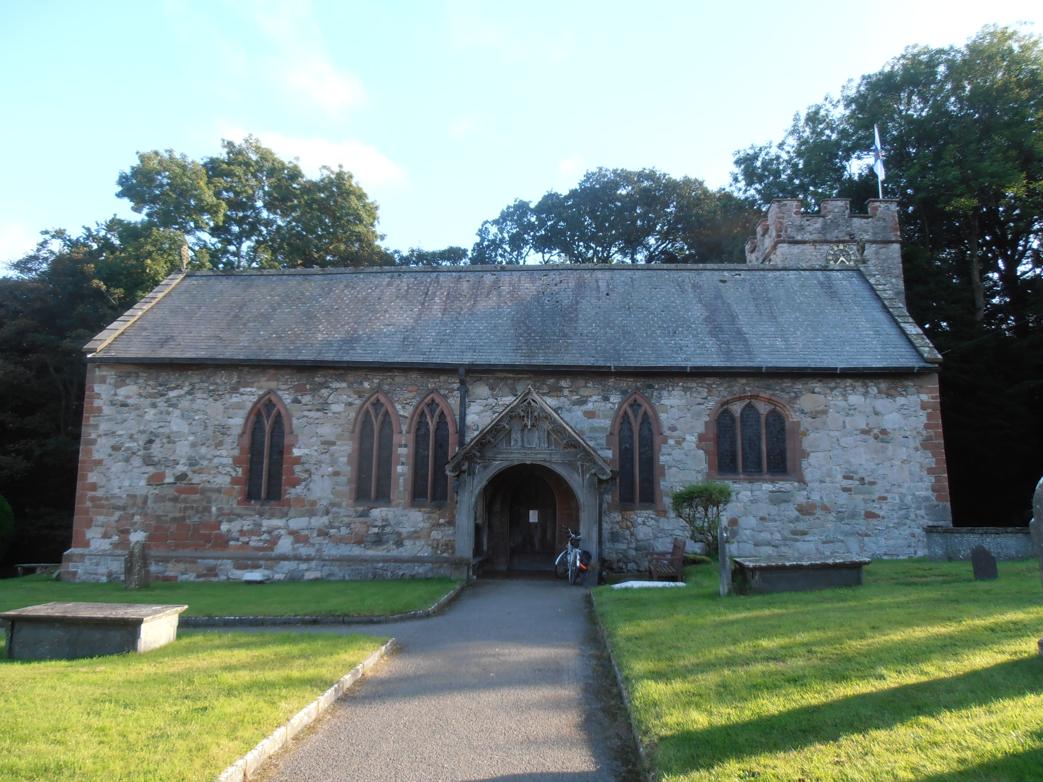 St Dyfnog Church, Llanrhaeadr-yng-Nghinmeirch near Rhuthun (Ruthin), Denbighshire, north Wales. Home of the Jessey stained glass window: "the finest in Wales".